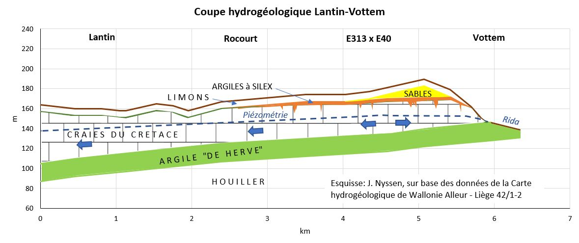 Coupe hydrogeologique Lantin Rocourt Vottem